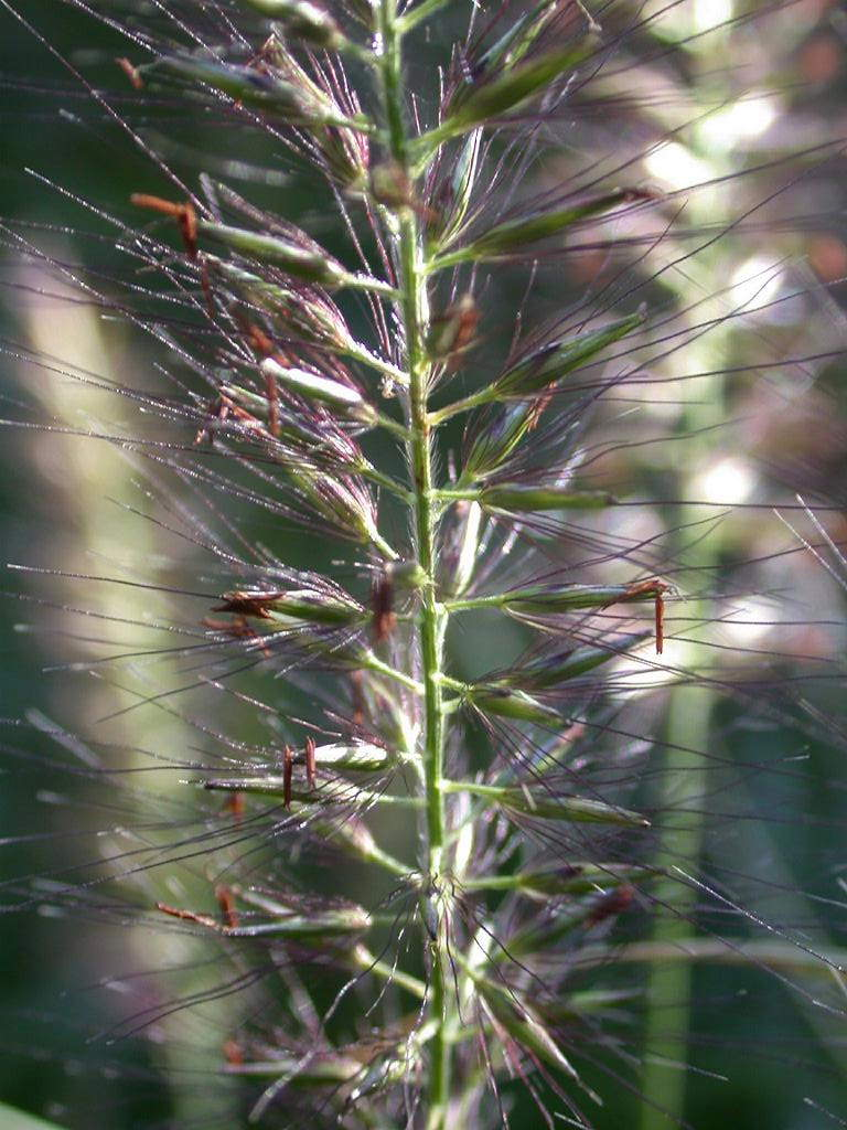 Name Pennisetum_alopecuroides (L.) Spreng.) （チカラシバ） Family Poaceae Date;2006,10;Tanabe city, Wakayama prefecture, Japan Author;Keisotyo